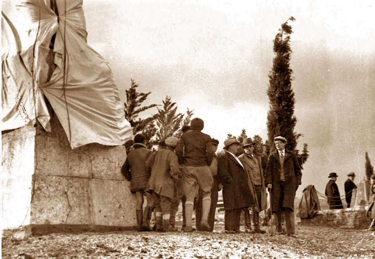 Unveiling of the monument "The Roaring Lion" for the heroes of Tel-Hai.